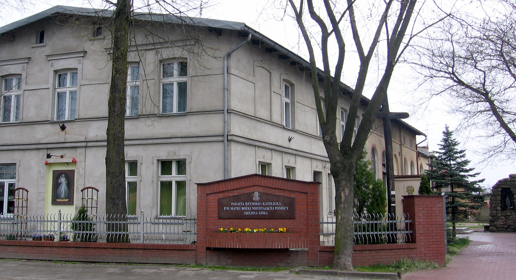 the church in Jędrzychów (Zielona Góra), Poland (temporary placement)